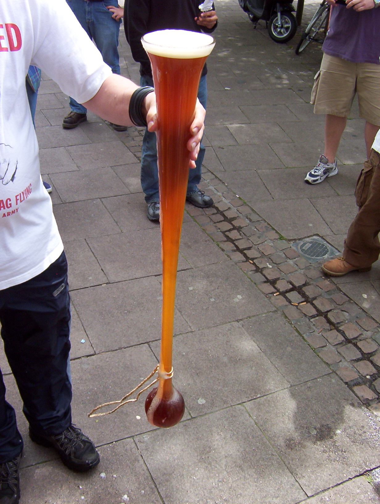 A full yard of ale. Obtained from ; presumably taken by the site's author, Mr Lee Tucker. According to [1] all photos on the site are available under a Creative Commons license.